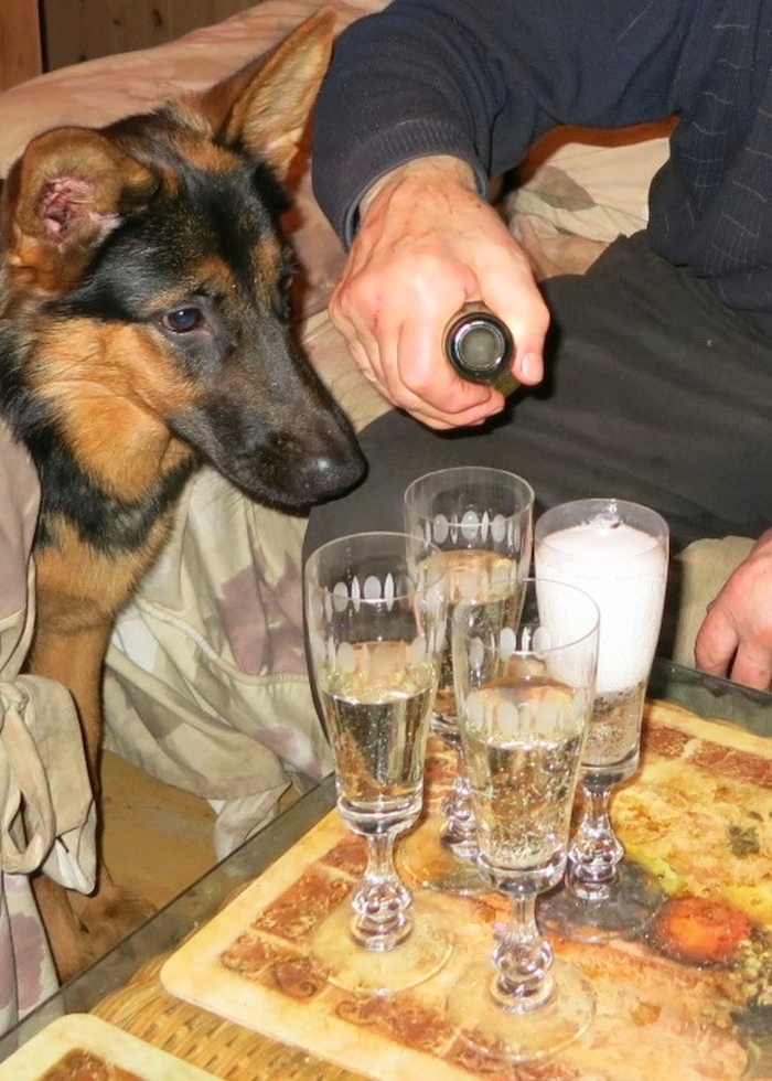 In Estonian village, some minutes to New (2014) Year